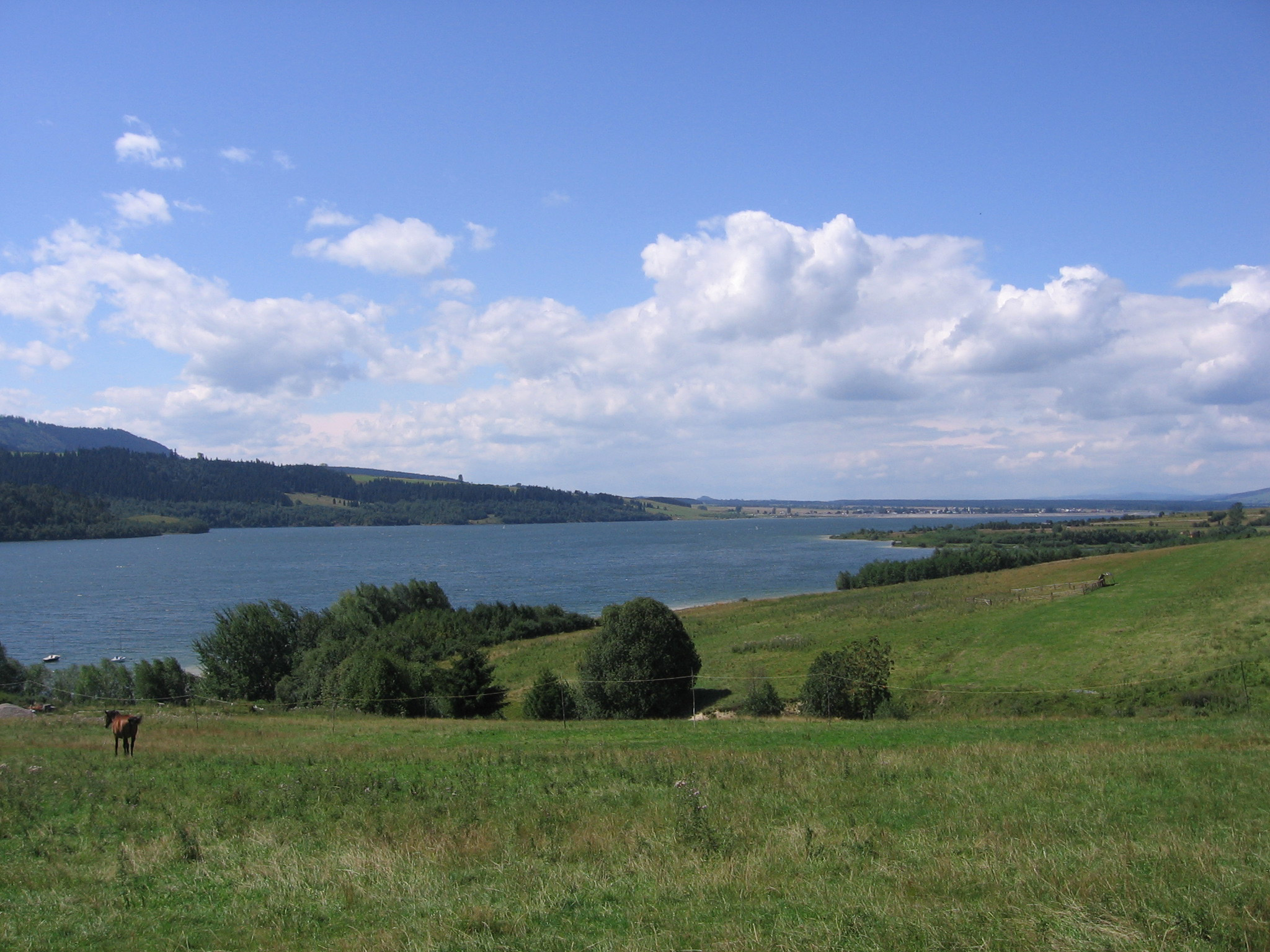 Czorsztynskie Lake. View from tourist camp Czorsztyn, Poland